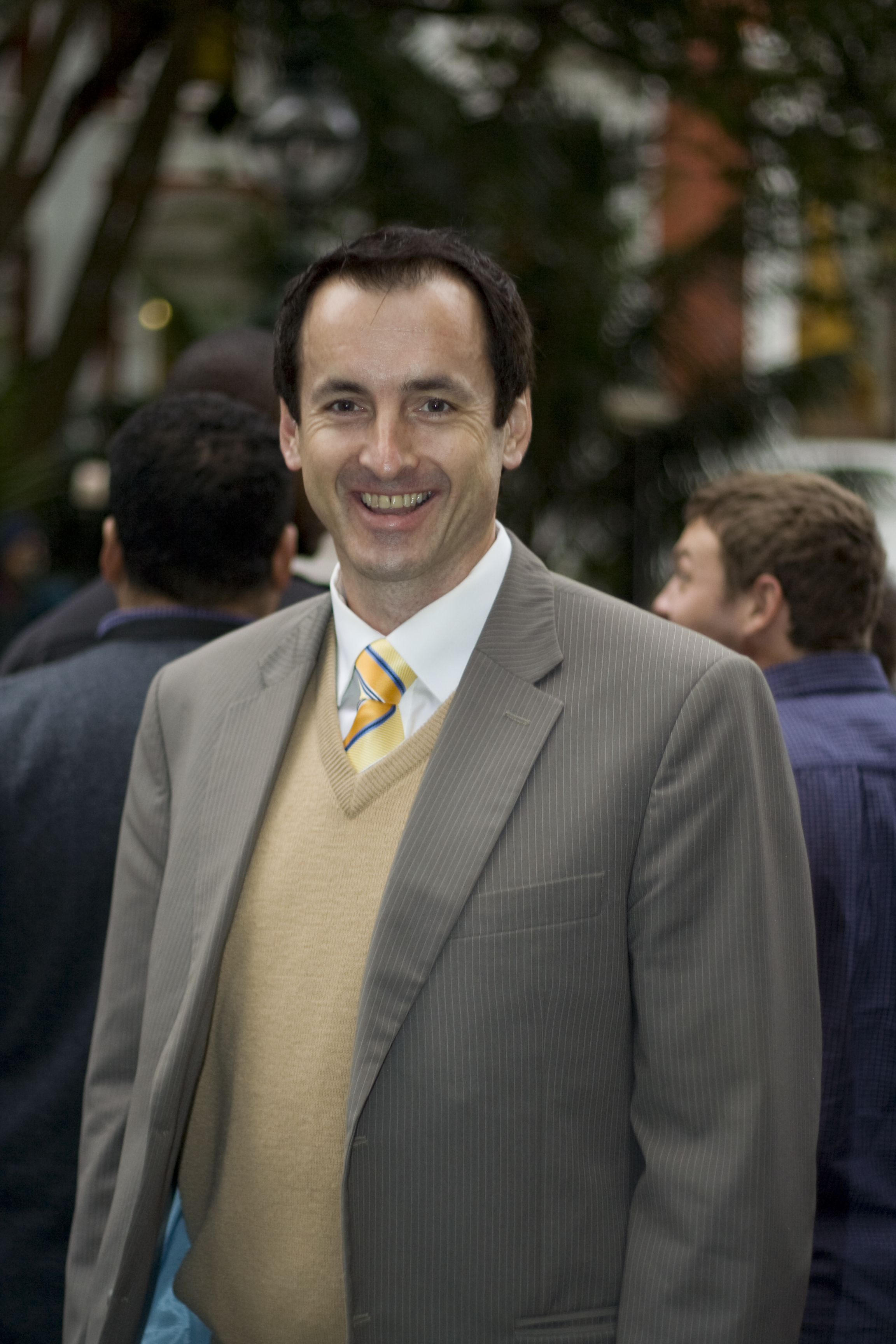 Mike Waters - Democratic Alliance Member of Parliament.